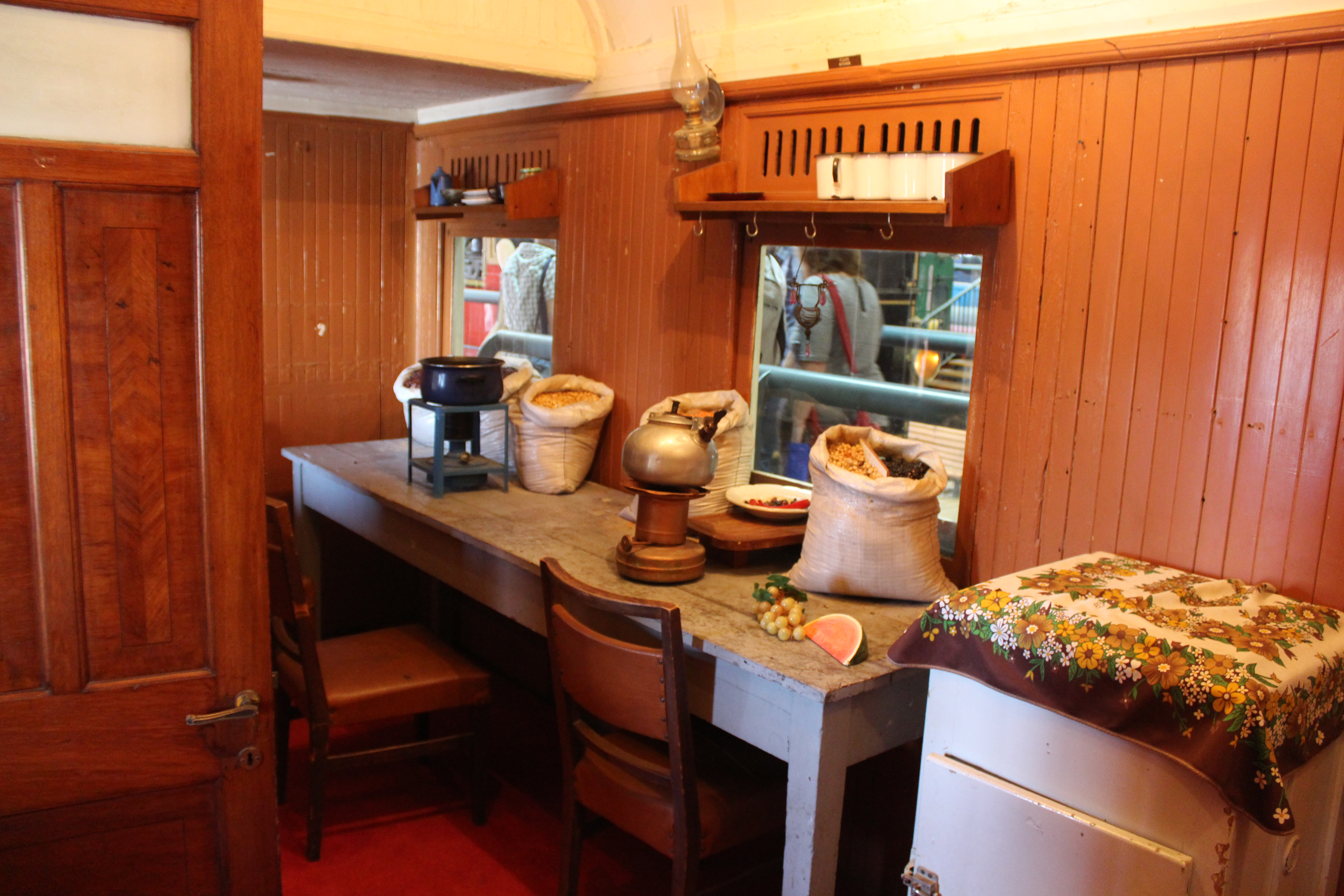 Israel Railway Museum, Haifa